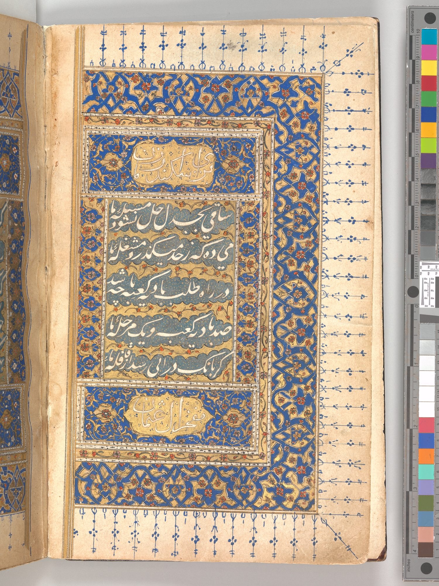 Section from a non-illustrated manuscript; Codices